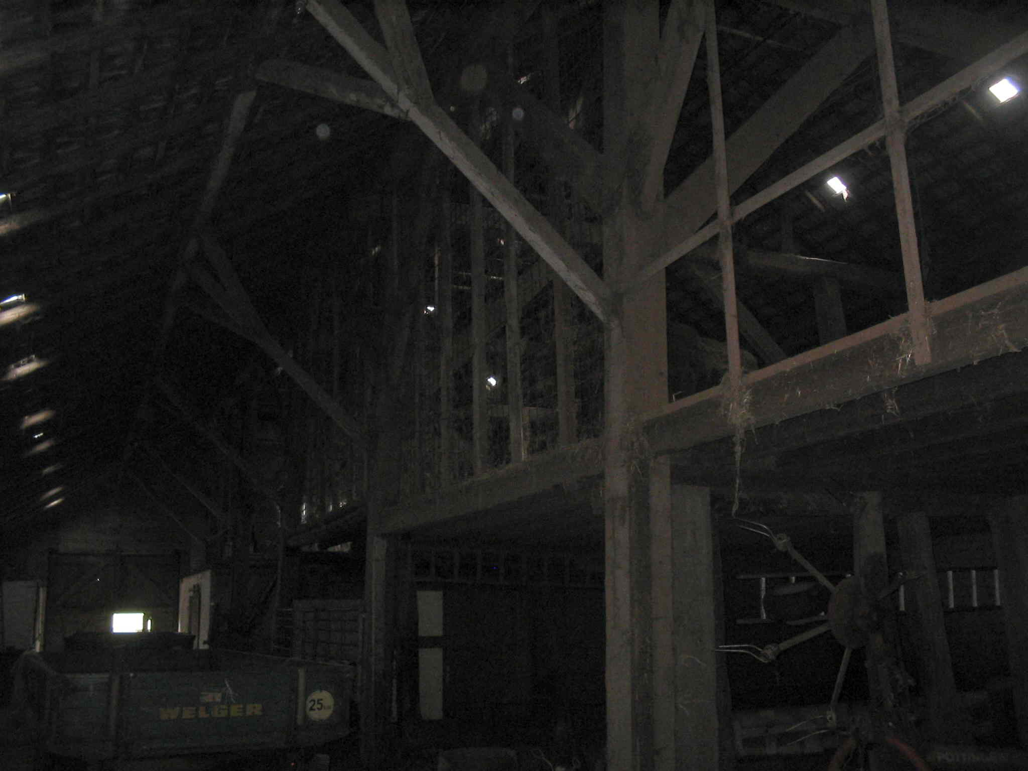 The interior of a back part of an East Frisian Gulfhaus showing the roof construction